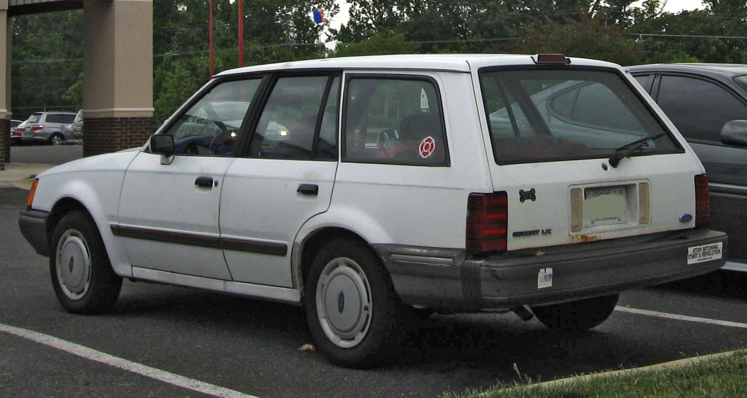 1988-1990 Ford Escort photographed in USA.